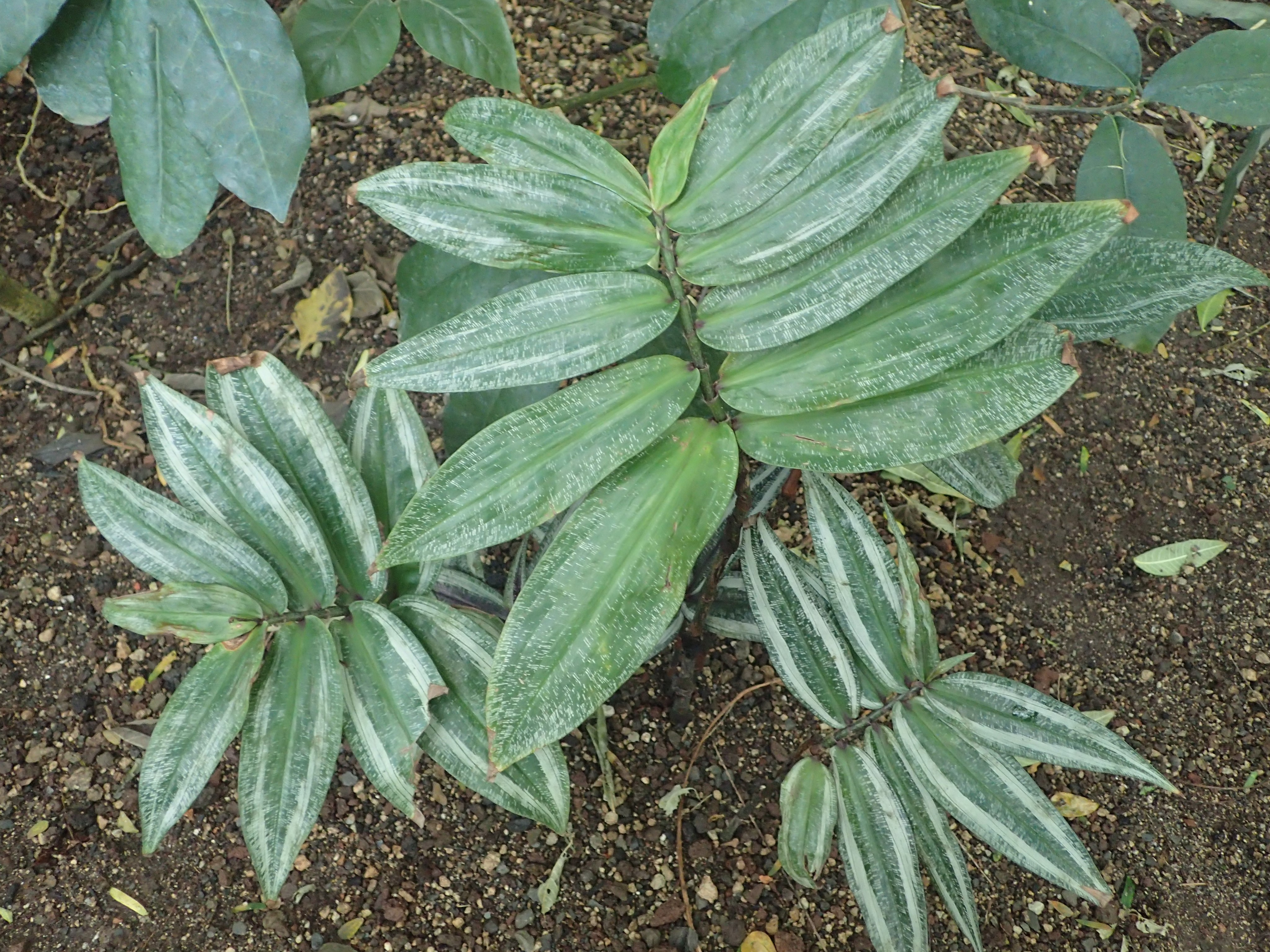 Dichorisandra mosaica in the Botanischer Garten, Berlin-Dahlem